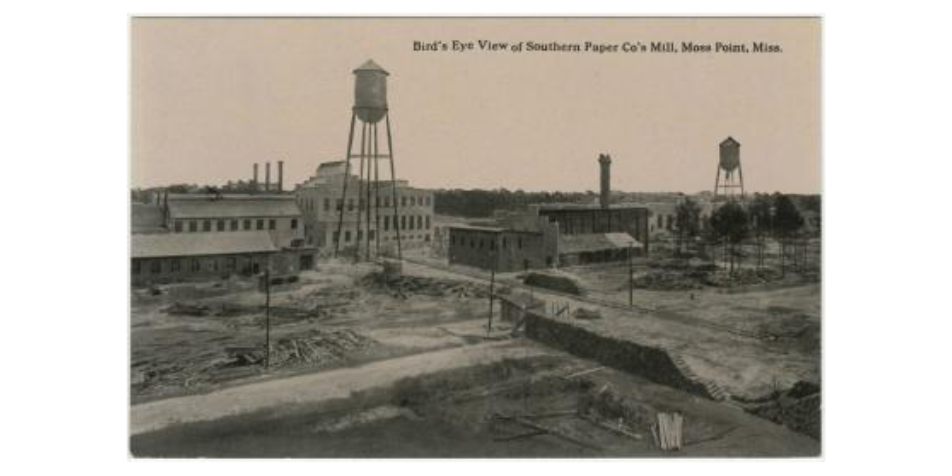 "Bird's Eye View of Southern Paper Co.'s Mill, Moss Point, Miss."